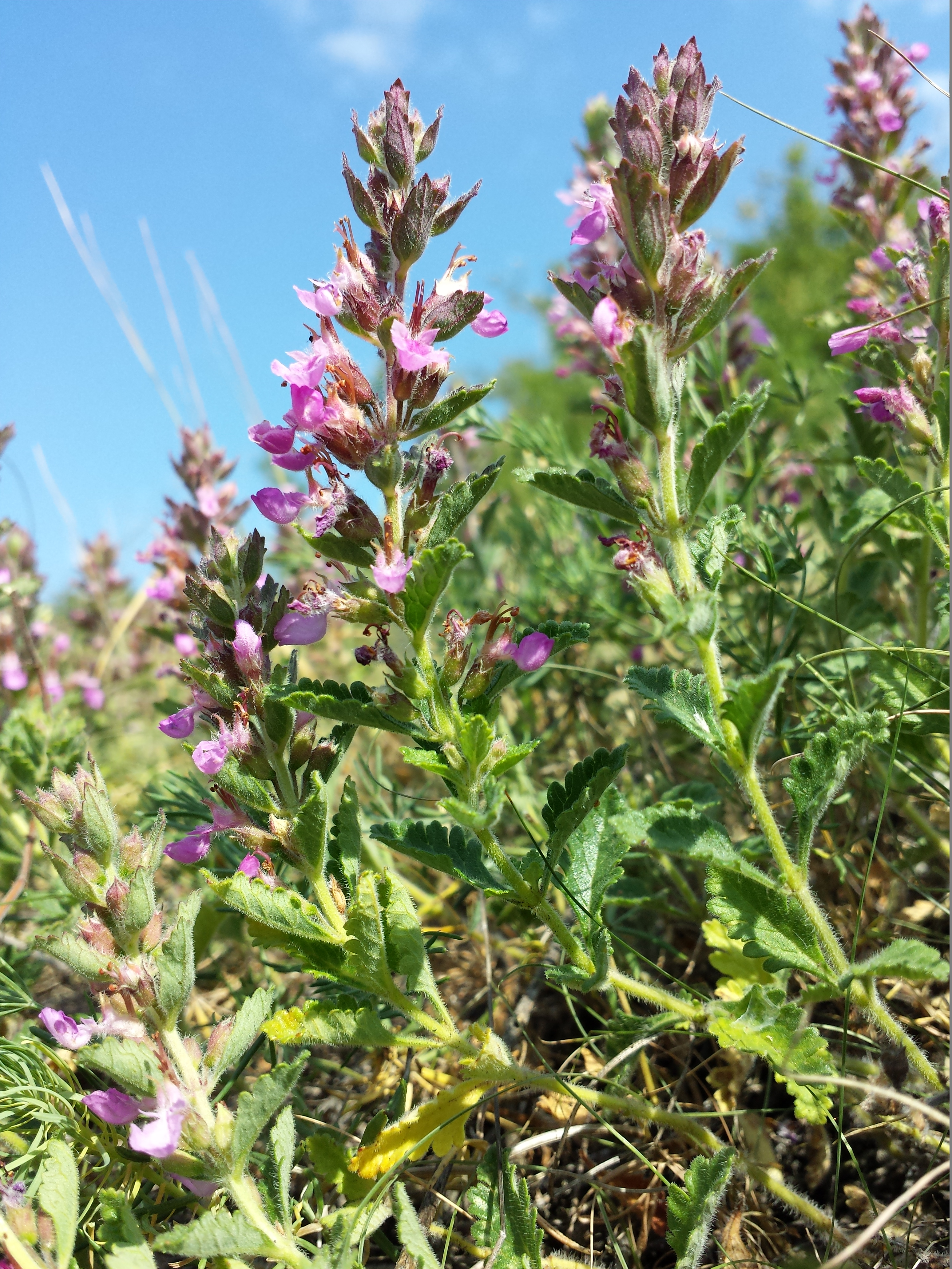 Habitus Taxon: Teucrium chamaedrys (sensu Fischer et al. EfÖLS 2008 ISBN 978-3-85474-187-9) Location: rock to the south-east of Buschberg, Leiser Berge, district Mistelbach, Lower Austria - ca. 400 m a.s.l. Habitat: dry grassland on lime stone